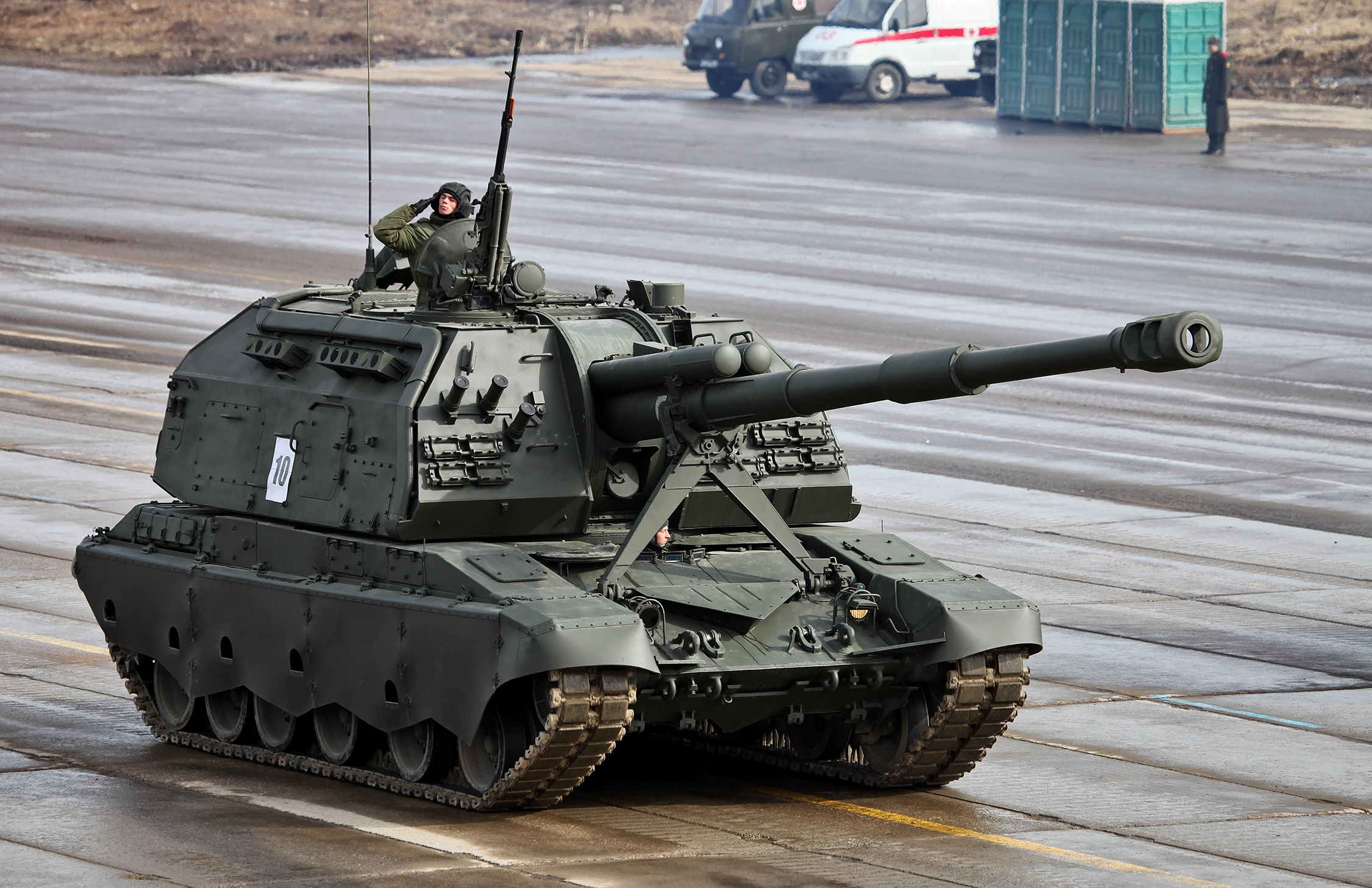 2S19M2 Msta-S SpH on Victory day parade repetition.